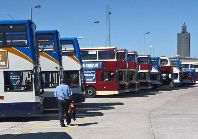 Bus park, Hull. This area behind the transport interchange is used for parking buses which are not in service. The blue buses belong to Stagecoach Hull; the burgundy ones to East Yorkshire Motor Services.